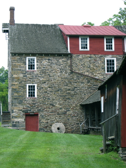 Photo of the Stover-Myers Mill in Bedminster Township, Pennsylvania.Photo taken by Michael Parker - original source.